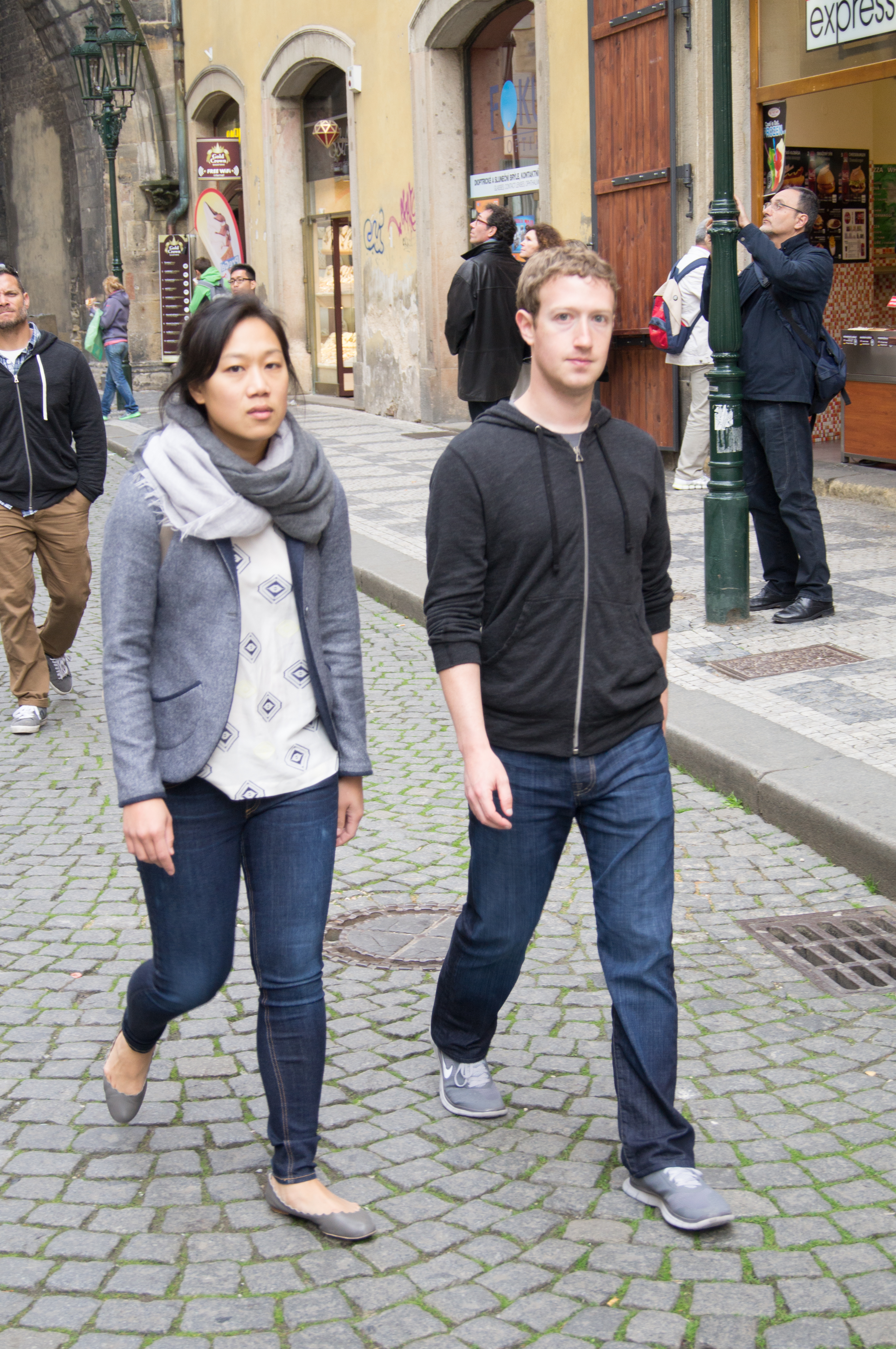 Priscilla Chan and Mark Zuckerberg in Prague (2013).